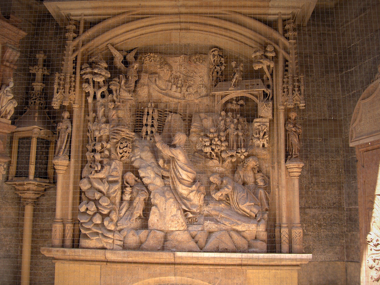 Half-relief "Christ in Gethsemane" in the Stephansdom in Vienna, Austria